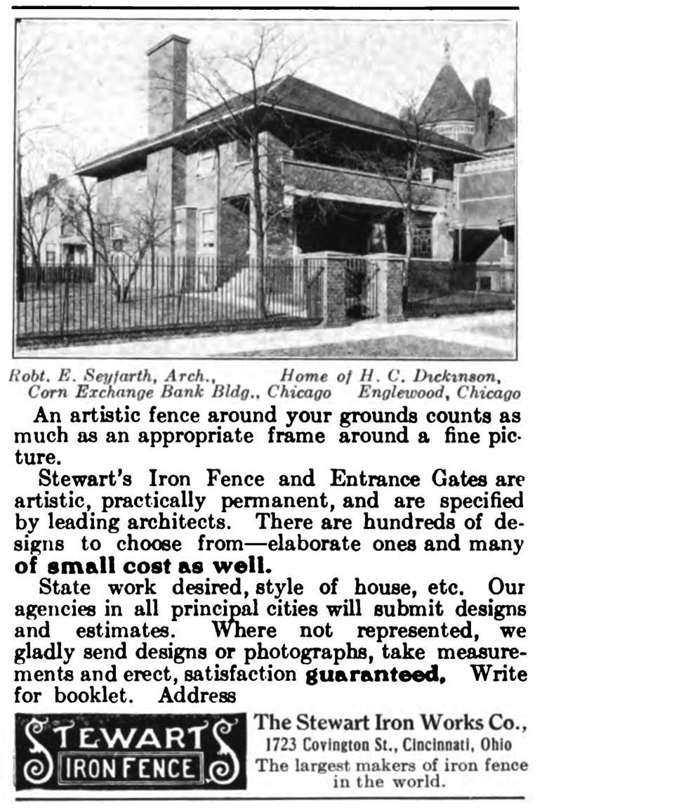 Image of the H.C. Dickenson House in Englewood, Chicago, IL by Robert Seyfarth, architect, c. 1908, as featured in an advertisement for the Stewart Iron Works, Co.